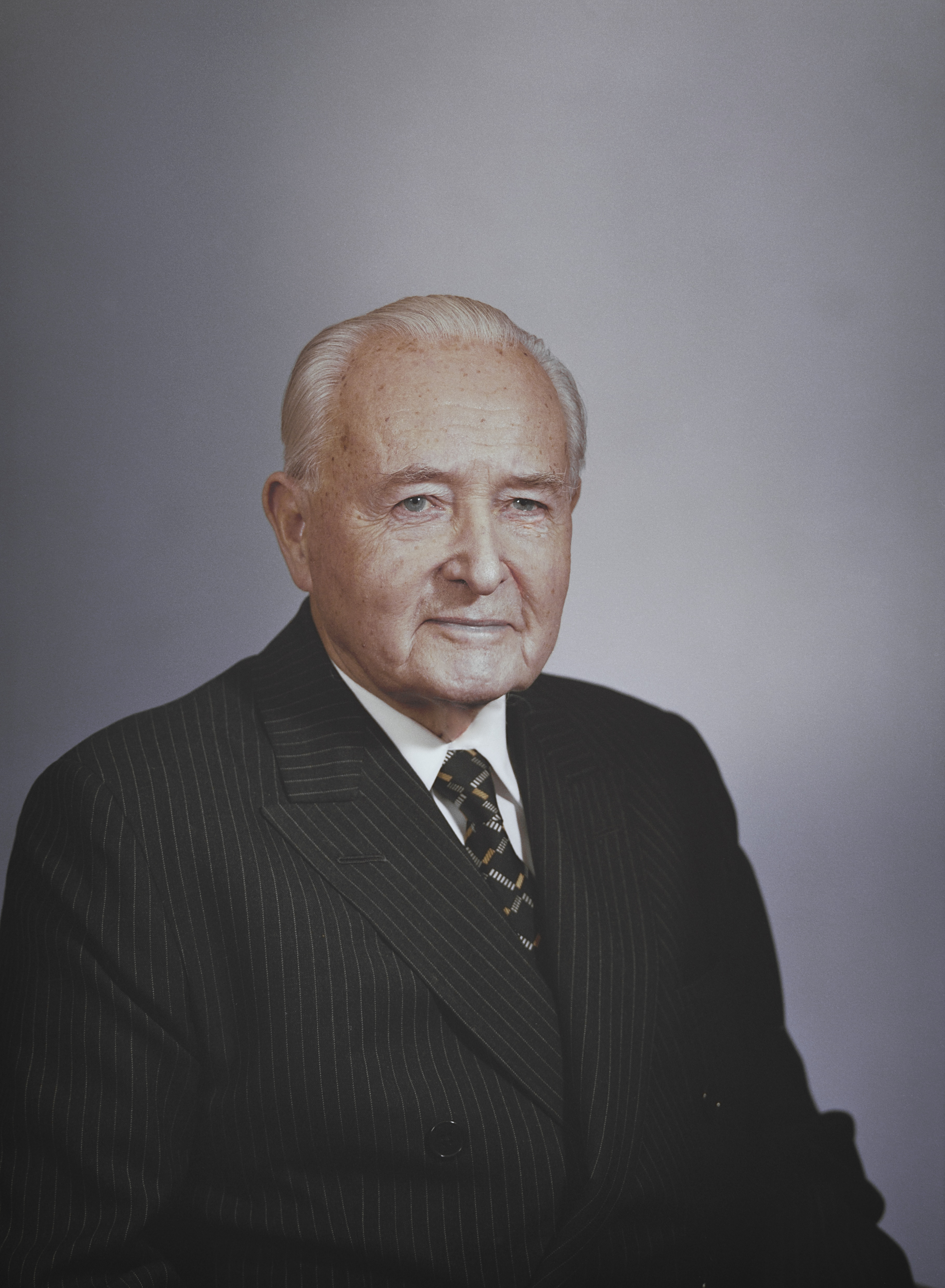 Photograph of the Finnish diplomat Richard Rafael Seppälä (1905–1997).